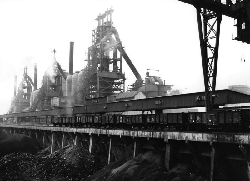 Salzgitter AG The ore from the sintering plant is brought to the stock bins via the ore trestle. From there, the individual charges of ore and coke are hauled in skips up inclined lifts to the blast furnace. The Salzgitter works has seven blast furnaces, of which six remain in operation.